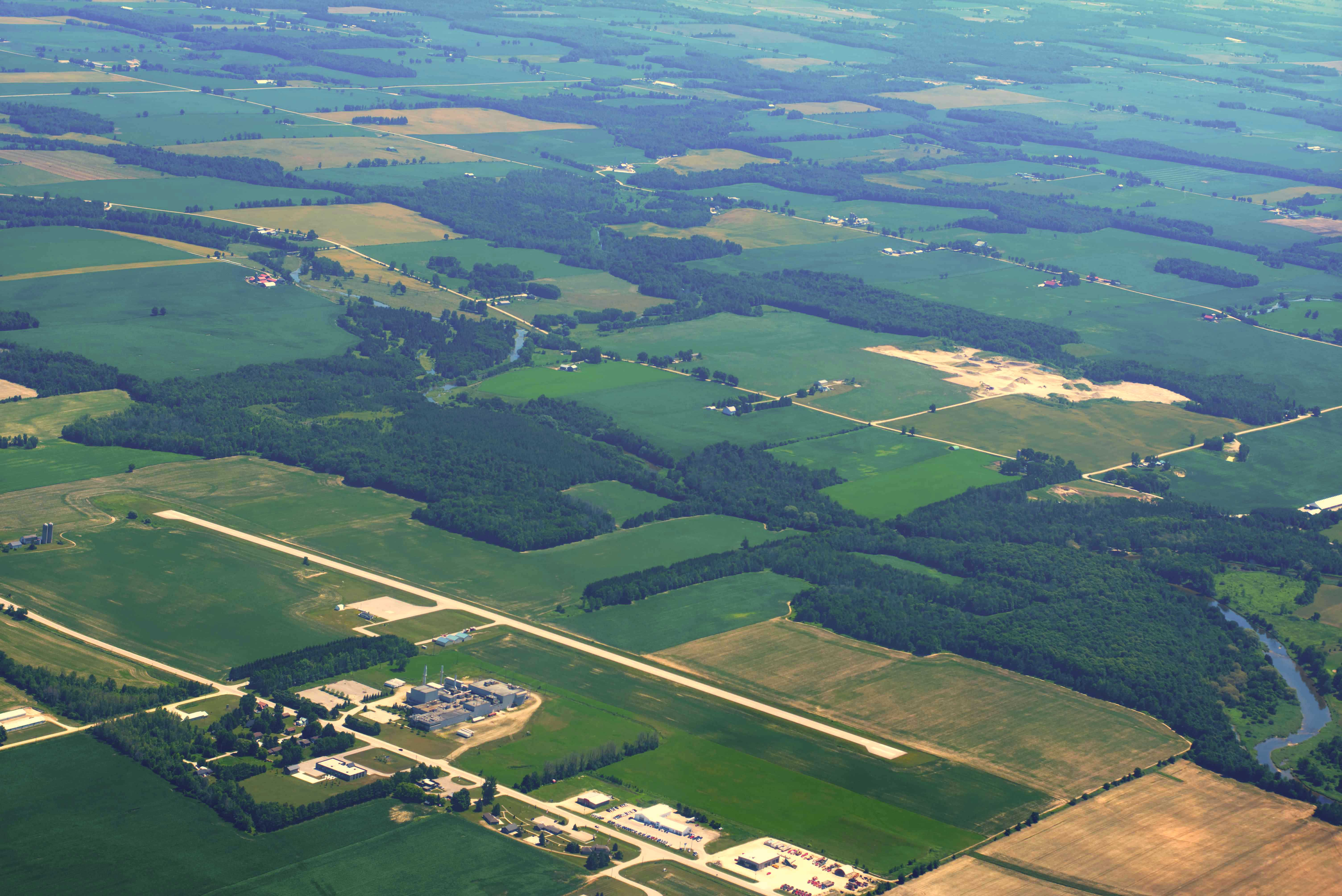 The Wingham Airport, viewed from north of the airfield.